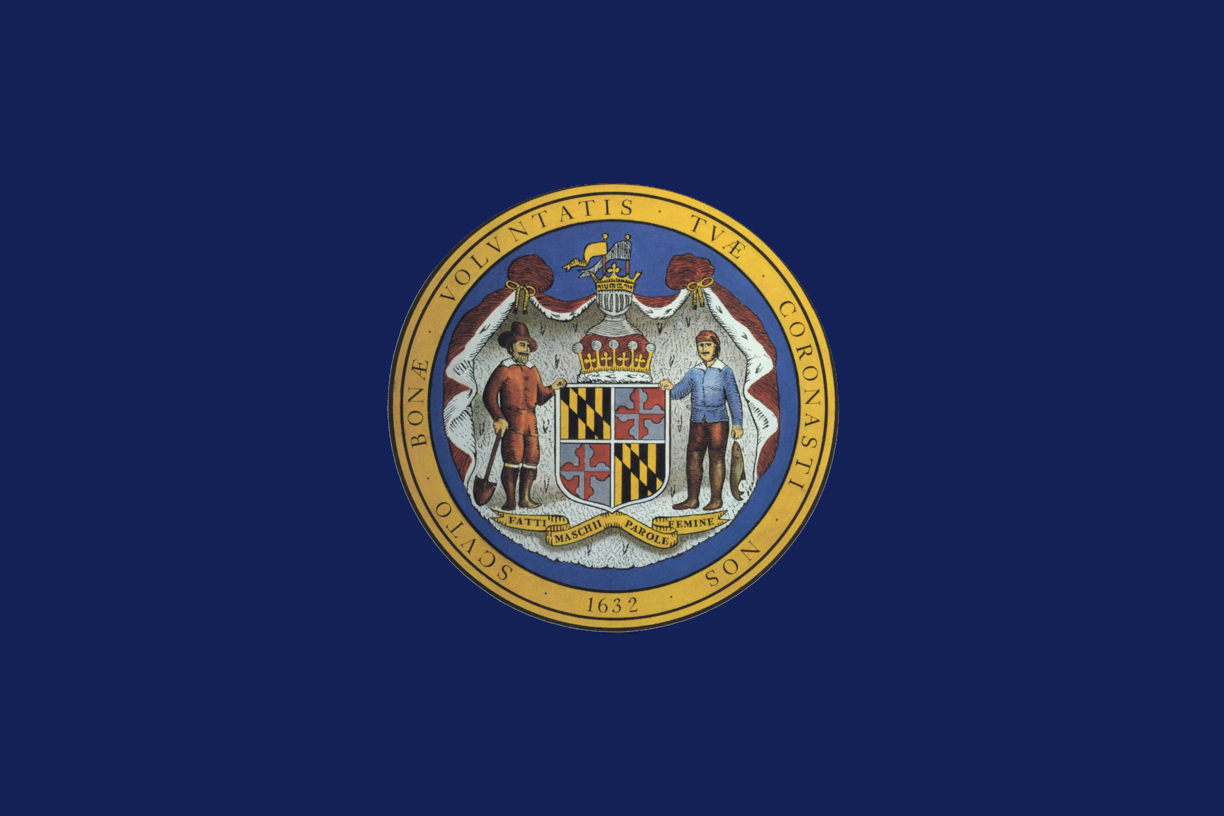 Flag of Maryland (pre-1904)